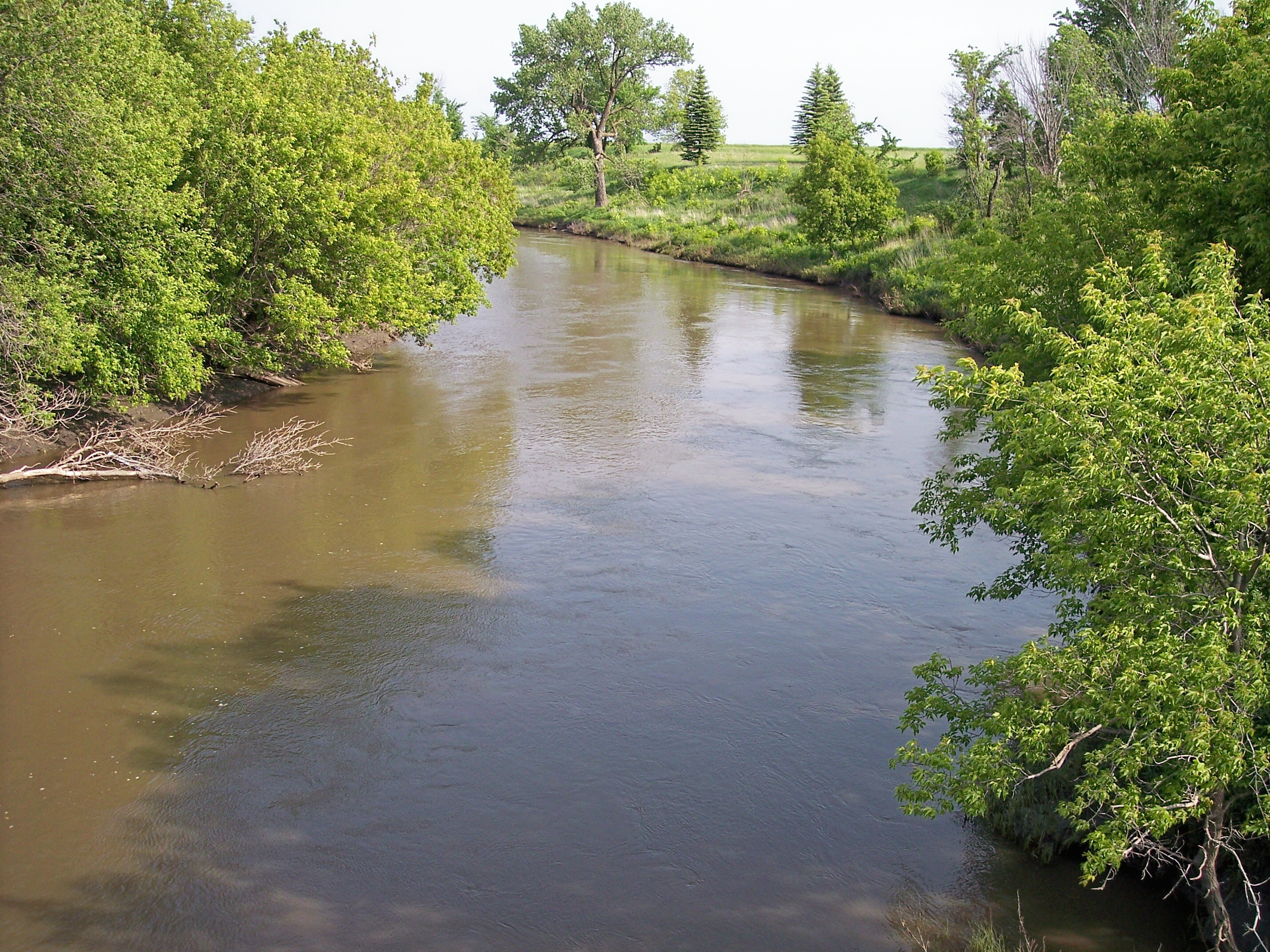 The Wild Rice River northwest of Abercrombie, North Dakota, as viewed from County Road 4